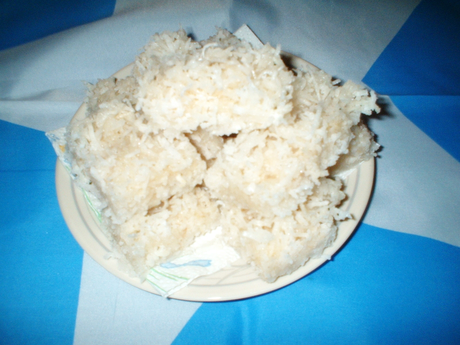 Gashaato, a Somali coconut sweets, set with a Somali flag background